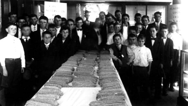 Local call number: Rc15049 Title: 4-H Corn Club boys with corn on display in the experiment station building: Gainesville, Florida Date: 1911. Physical descrip: 1 photoprint: b&w; 5 x 7 in. Series Title: (Reference Collection.) Repository: 500 S. Bronough St., Tallahassee, FL 32399-0250 USA. Contact: 850.245.6700. Persistent URL